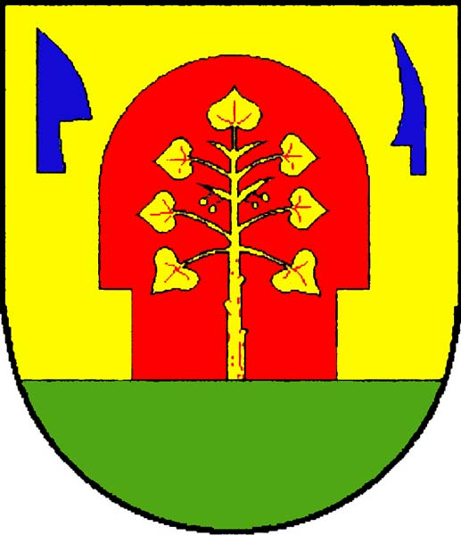 Municipal coat of arms of Lysovice village, Vyškov District, Czech Republic.